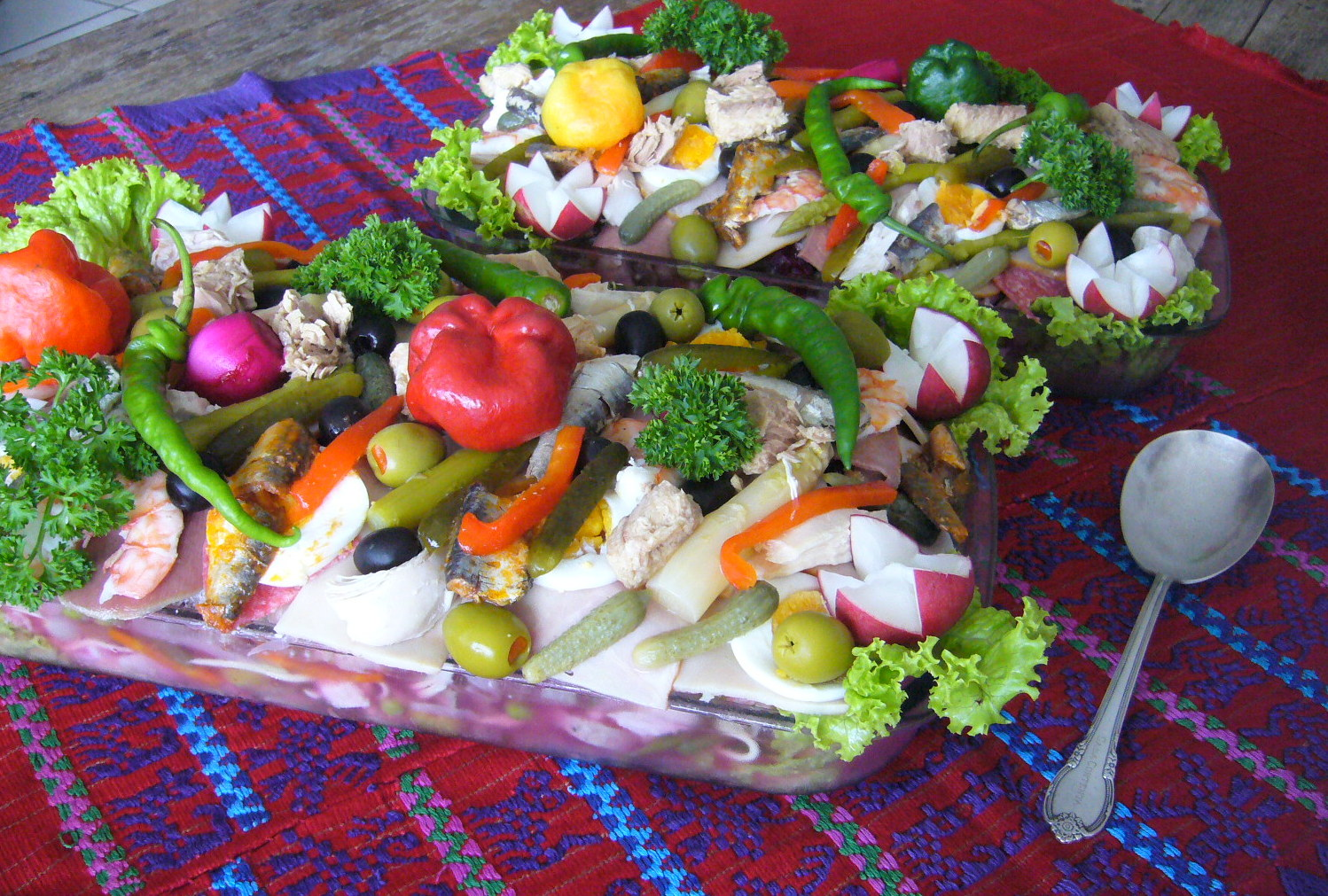 Fiambre